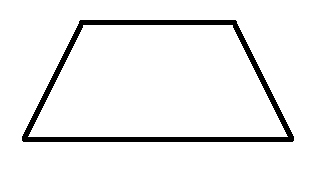 Isosceles Trapezoid